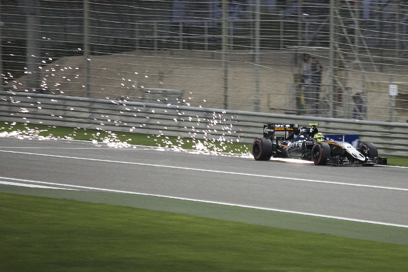 Sergio Pérez at the 2016 Bahrain Grand Prix